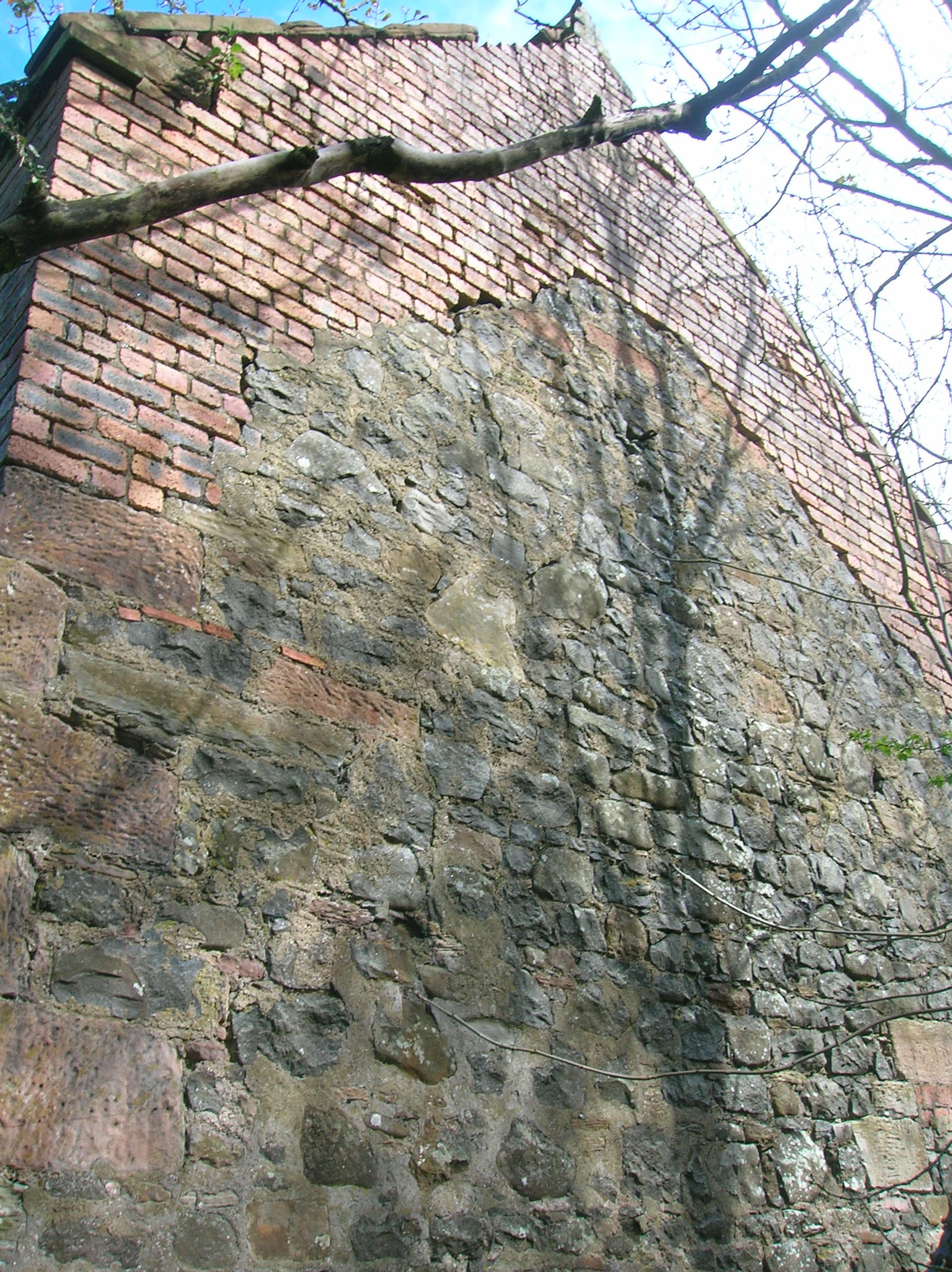 Gable end at Millmannoch Mill showing alterations, Drongan, South Ayrshire, Scotland.